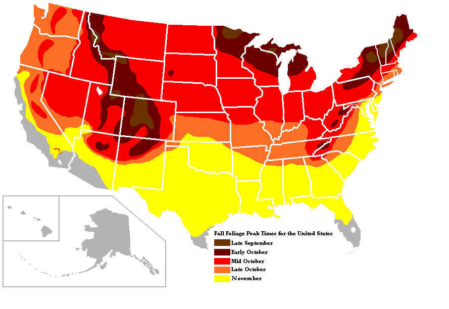 Fall foliage peaks in the United States